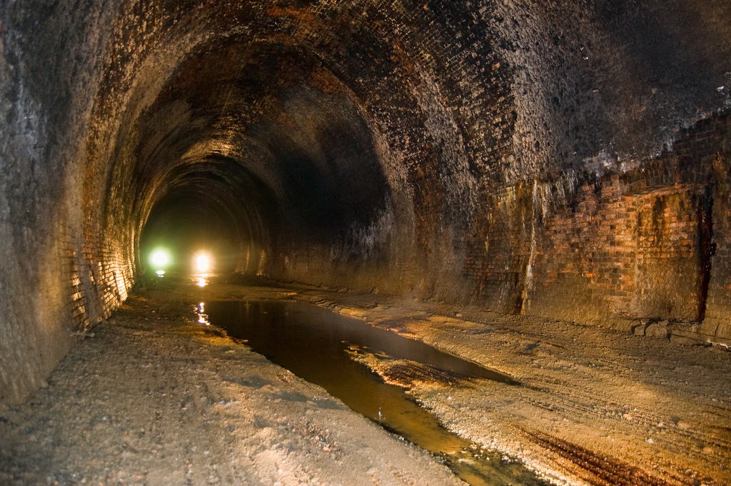 Here, in Prospect Tunnel, you can see the innards of Follifoot Ridge, deep in the bowels of the Yorkshire Dales. This tunnel cuts through the same geological sandstone beds that are responsible for the nearby Plumpton Rocks. The rock here is absolutely brimming with iron, as evidenced by the pink hues visible in buildings like Spofforth Castle. You can see it leaching into the tunnel in the form of bright orange deposits which seep through the walls. This line was one of the very first railways to be closed under the Beeching Axe of the early 1960s. The shutdown of once-thriving powerhouses like the Leeds & Thirsk Railway has riddled landscapes everywhere with an amazing legacy in the form of these post-industrial warrens. A copy of this file can be seen online in its original resolution at this address.